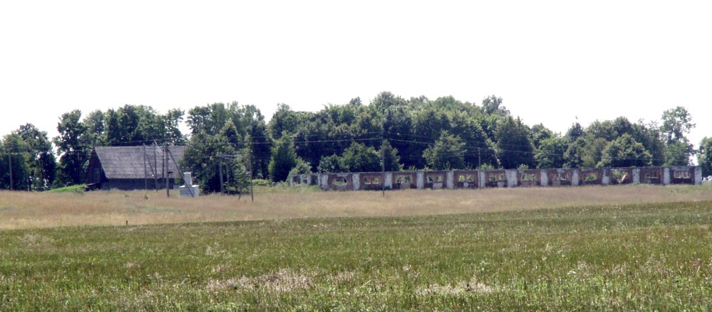 Šemetiškiai, Šiauliai district, Lithuania